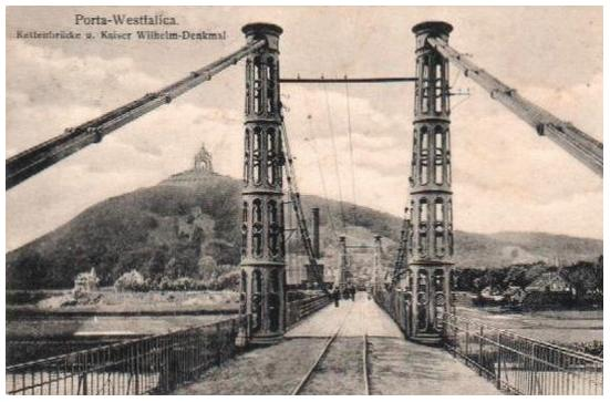 Old iron chain bridge at the Porta Westfalica. In the background the Kaiser-Wilhelm-Denkmal, Germany.